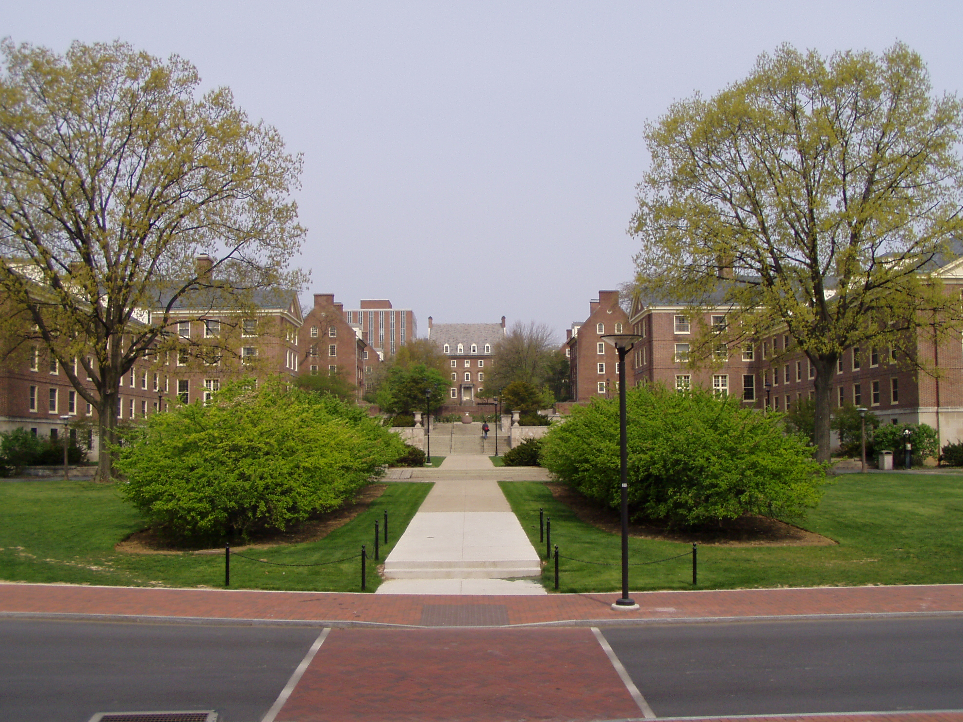 Image of West Halls at Penn State. From left to right, buildings are Hamilton, McKee (not shown), Watts, Irvin (straight ahead), Jordan, and Thompson.